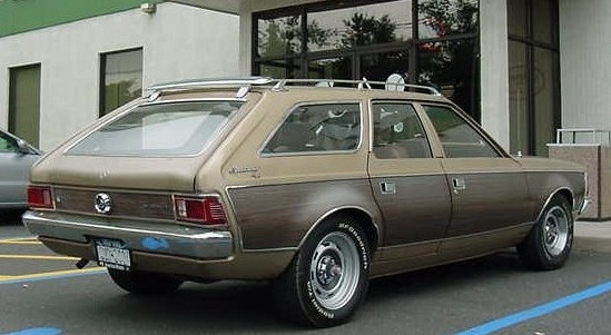 1972 American Motors Corporation (AMC) Hornet Sportabout - four door station wagon - with optional wood-grain body side trim and AMC's styled steel road wheels. This picture was taken at the 2003 AMCRC show held in Somerset, New Jersey. This car was parked in front of the entrance to the host hotel's "Sports Time" sports bar (visible before the image was cropped by Mattes.